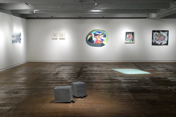 a cleaner heart a do it installation shot with work by Jennifer Levonian (not shown), Casey Watson (two pieces on the right), Matthew Rich (far left, large circle in back, and on floor to right rear), and Bill Walton (on floor in front and back wall two items on left)